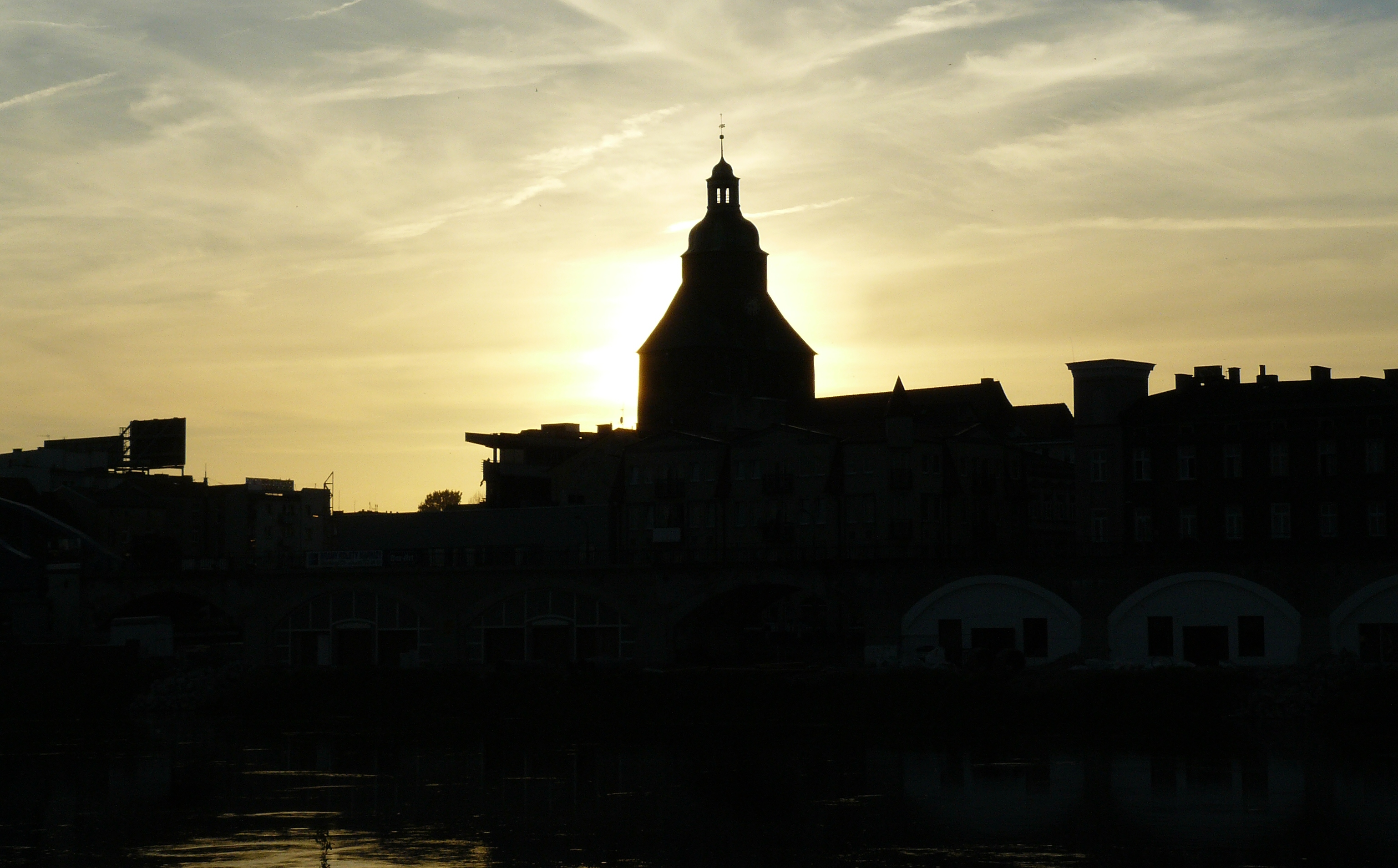 Katedra zachód słońca